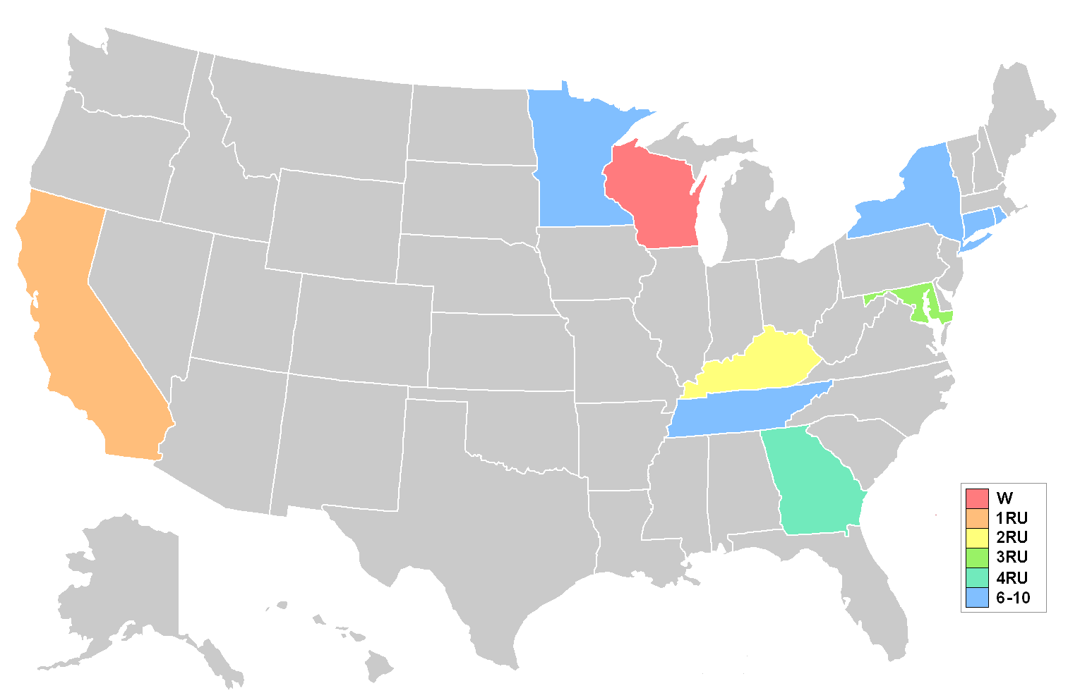 Map showing placements at the Miss Teen USA 2002 pageant. Key on graphic shows colour coding for break down of placements.